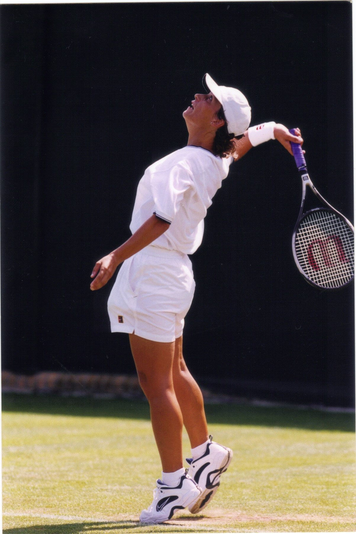 Israeli Tennis player Ilana Berger in a masters tournament in London